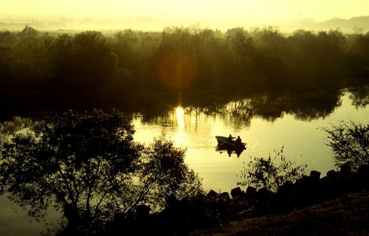 朝の加古川上荘橋下流付近